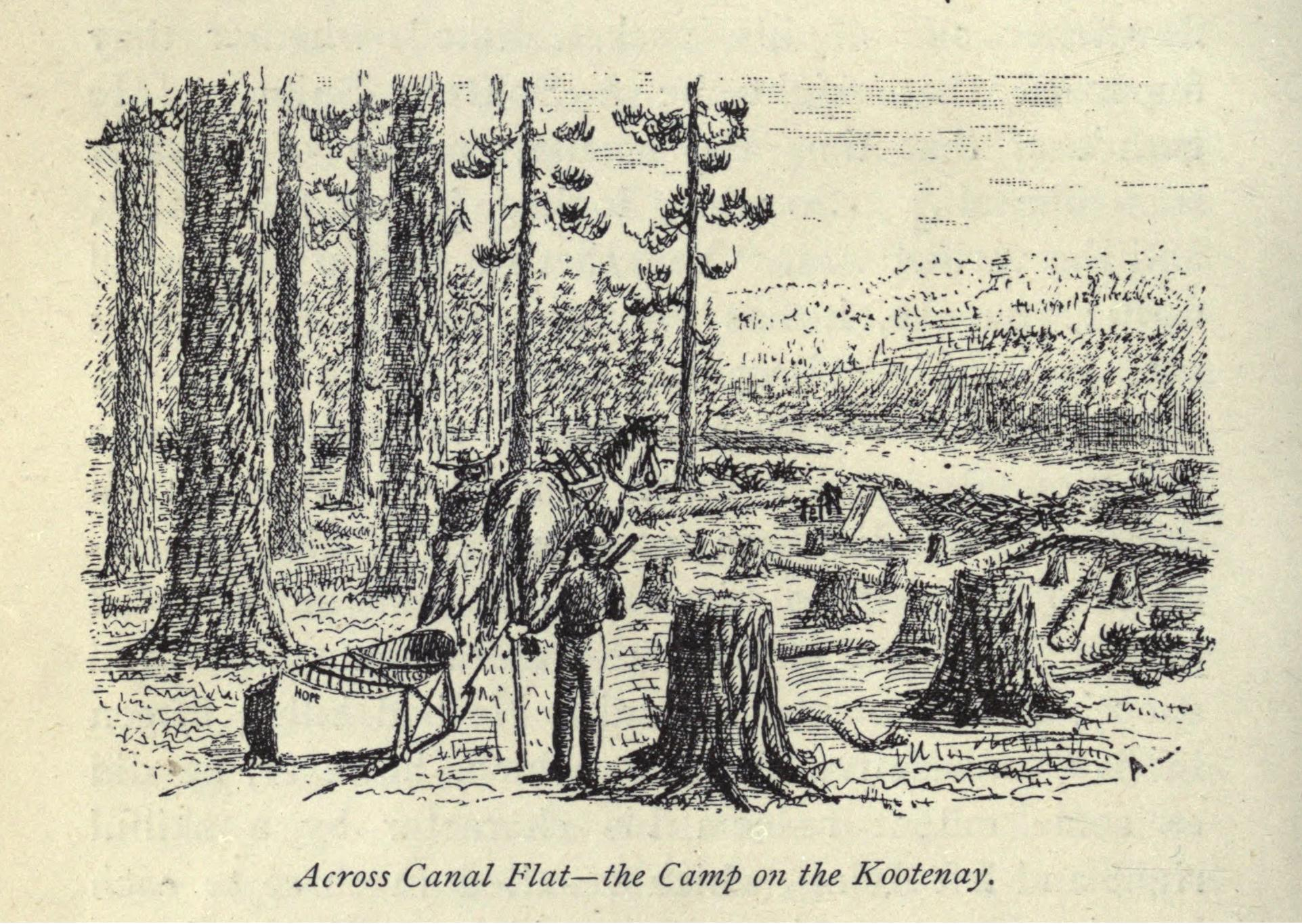 Logging preparing for construction of the Baillie-Grohman Canal at Canal Flat BC in 1887. A horse is also shown drawing a canoe, presumably as a portage between Columbia Lake and the Kootenay River.